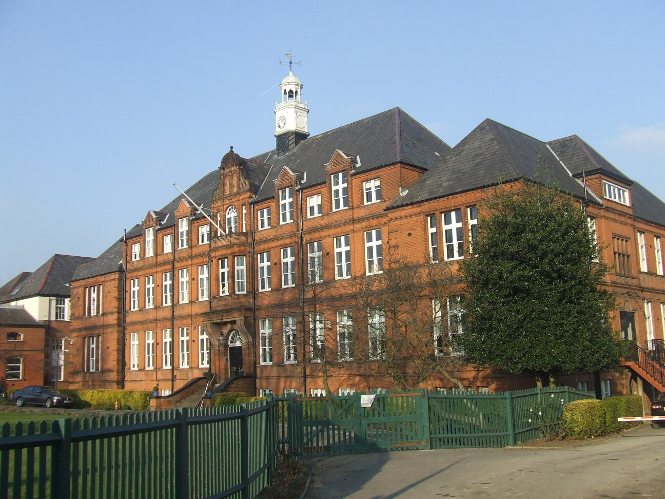 From Flickr: Edward Alleyn founded Dulwich College with 12 students in 1619 to serve the sons of the yeomen of Dulwich. But the school grew in size and status until, by the 19th century, its fees were beyond the means of all but the very wealthy. In 1882 a new school was established to serve roughly the original purpose envisaged by Edward Alleyn. In honour of the original founder it was called Alleyn's School. It became a public school and was admitted to the Headmaster's Conference in 1919. For a while it was a Direct Grant School but when, in 1975, that status was abolished it became independent. Also, at about that time, it became co-educational. Notable Alleynians include P G Wodehouse, Sir Ernest Shackleton and C S Forester. Rather less well-known was my uncle, Frank Roberts, who, after a spell farming in Saskatchewan in the 1920's became an Anglican missionary in Southern Rhodesia (now Zimbabwe) and finally, after converting to Catholicism, Head of the Psychology Department at St Mary's University College, Strawberry Hill.